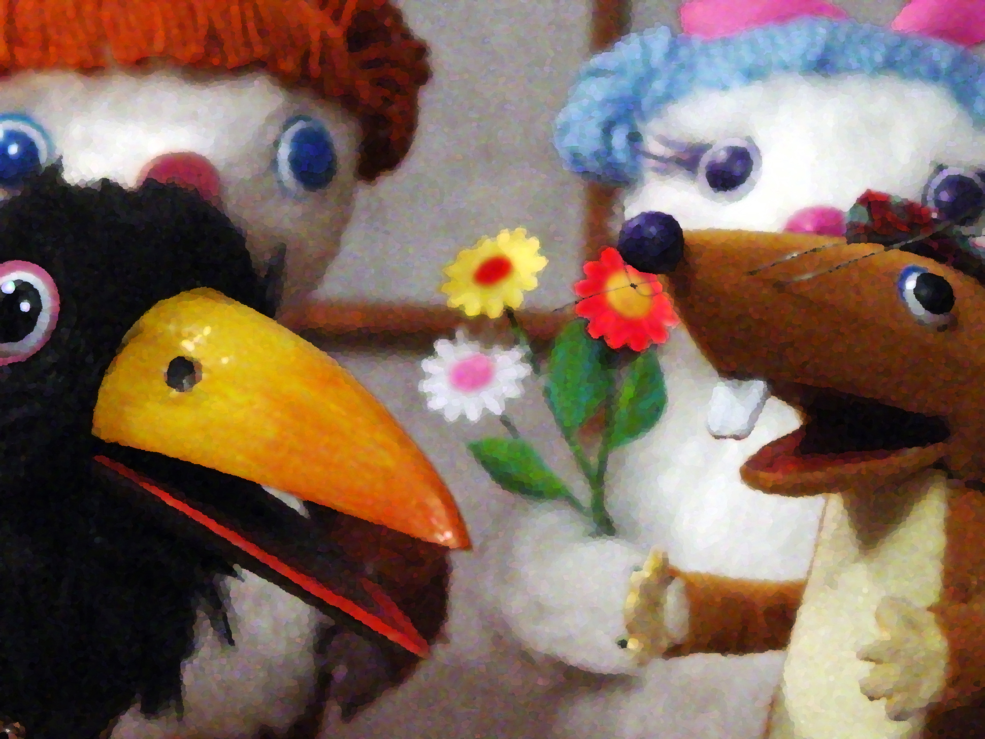 Colargol with his company.